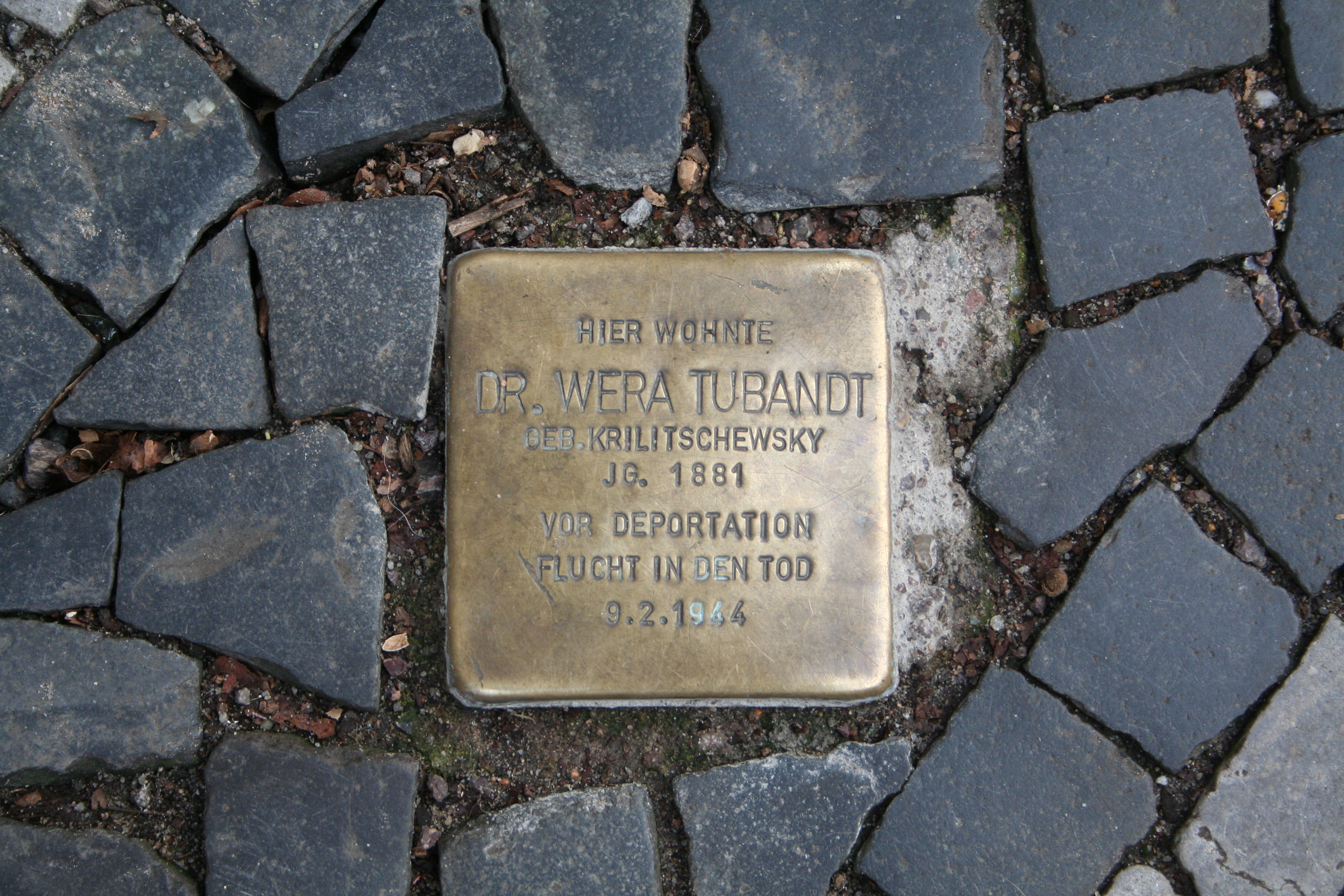 Stolperstein at Halle (Saale) for Wera Tubandt, Carl-von-Ossietzky-Straße 16